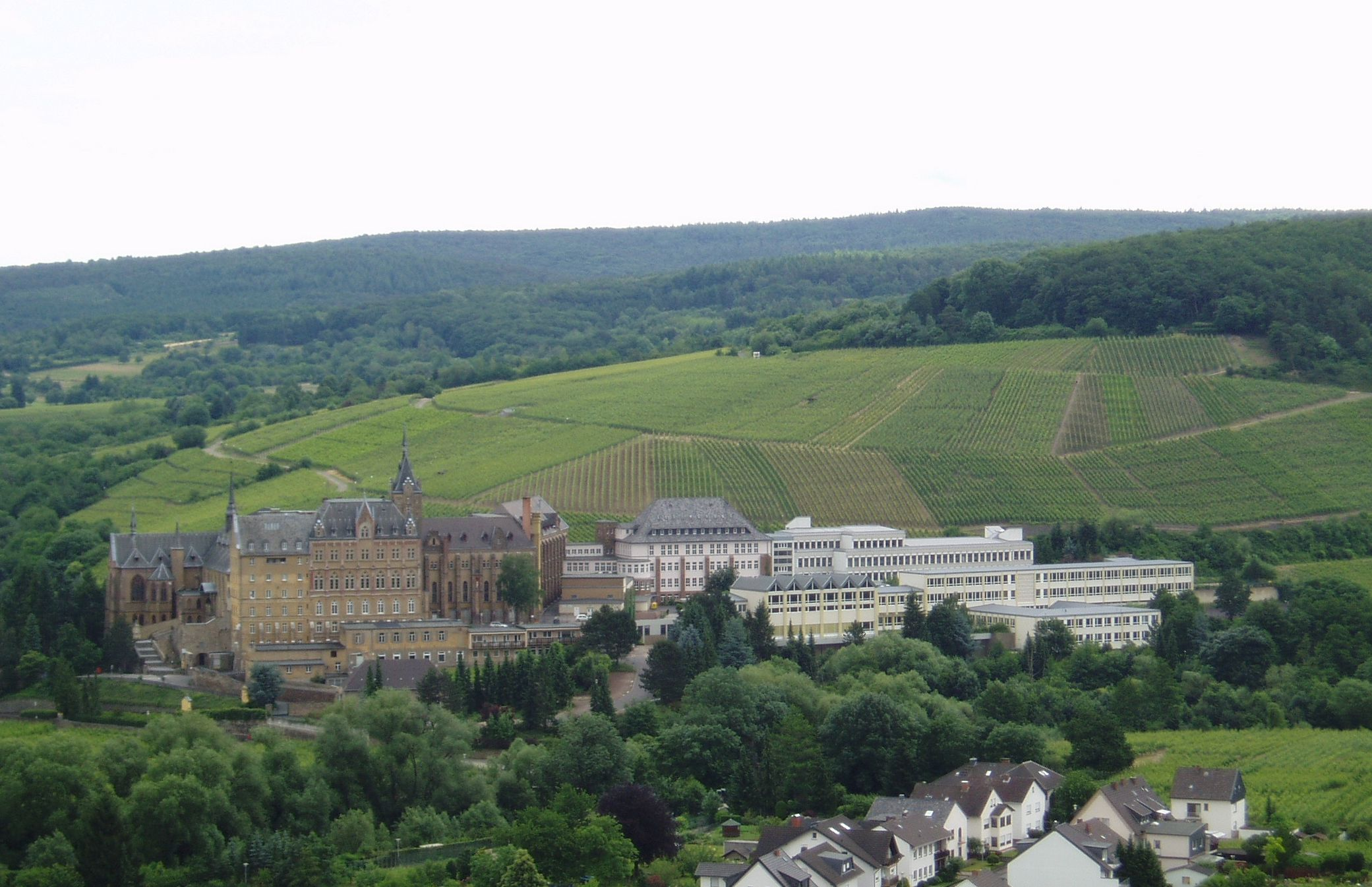 Convent Calvarienberg, Bad Neuenahr-Ahrweiler